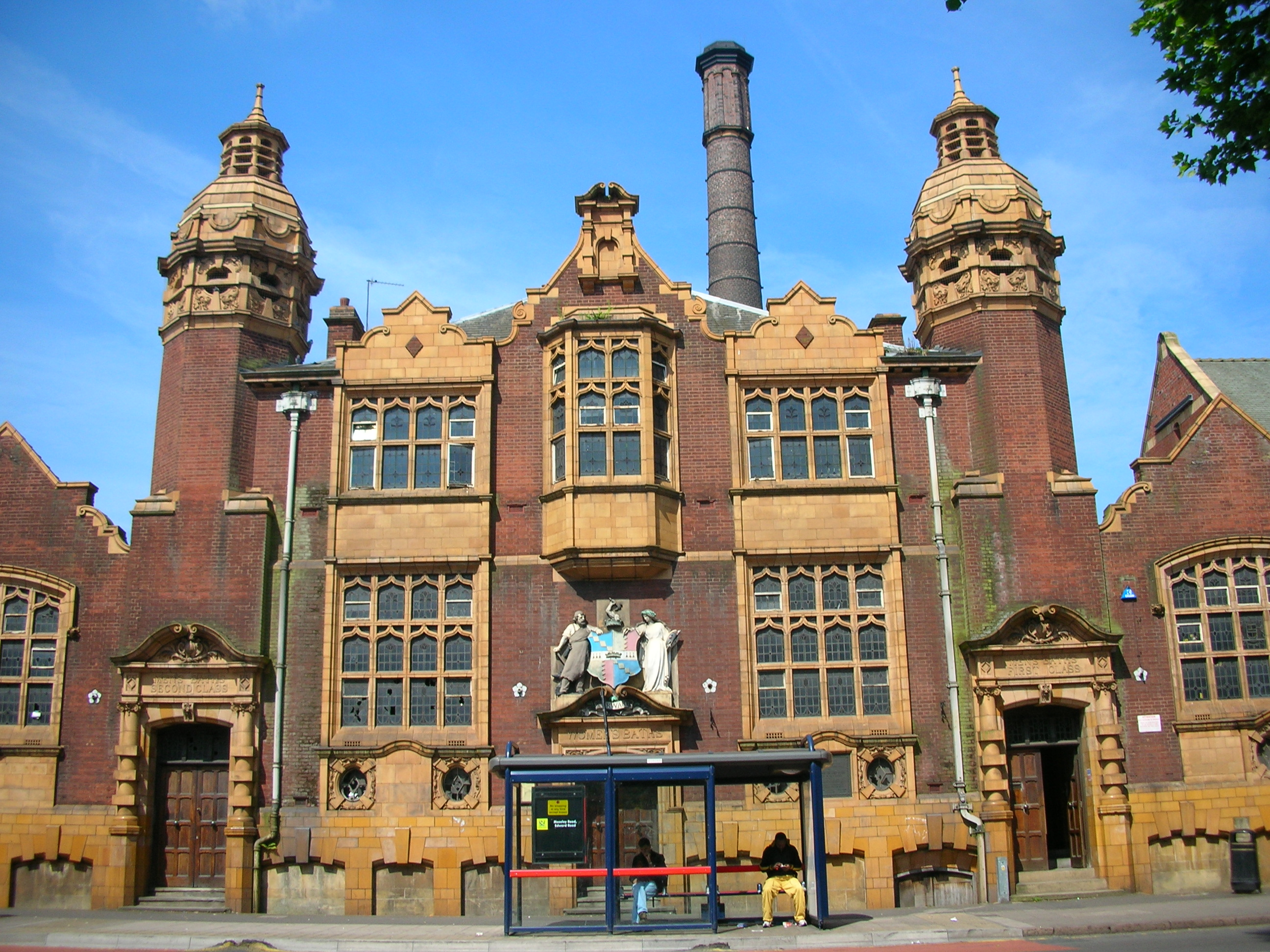 The baths on Moseley Road, Balsall Heath, Birmingham, England. Photographed by me.